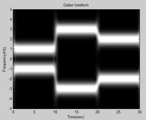 Gabor transform of x x=cos(2*pi*t) when t=0~10s x=cos(6*pi*t) when t=10~20s x=cos(4*pi*t) when t=20~30s